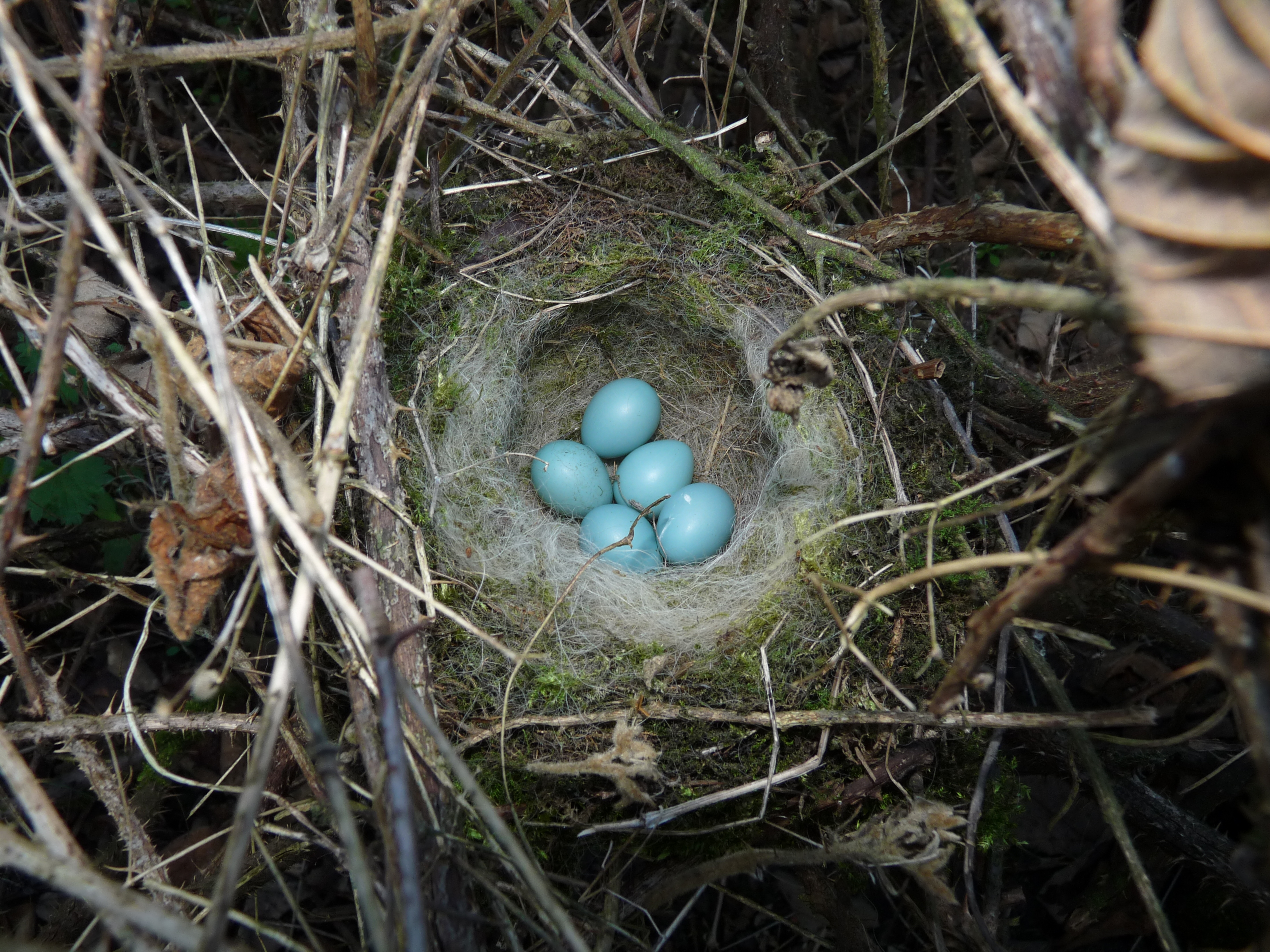 Dunnock Prunella modularis, Sutton in Ashfield, England